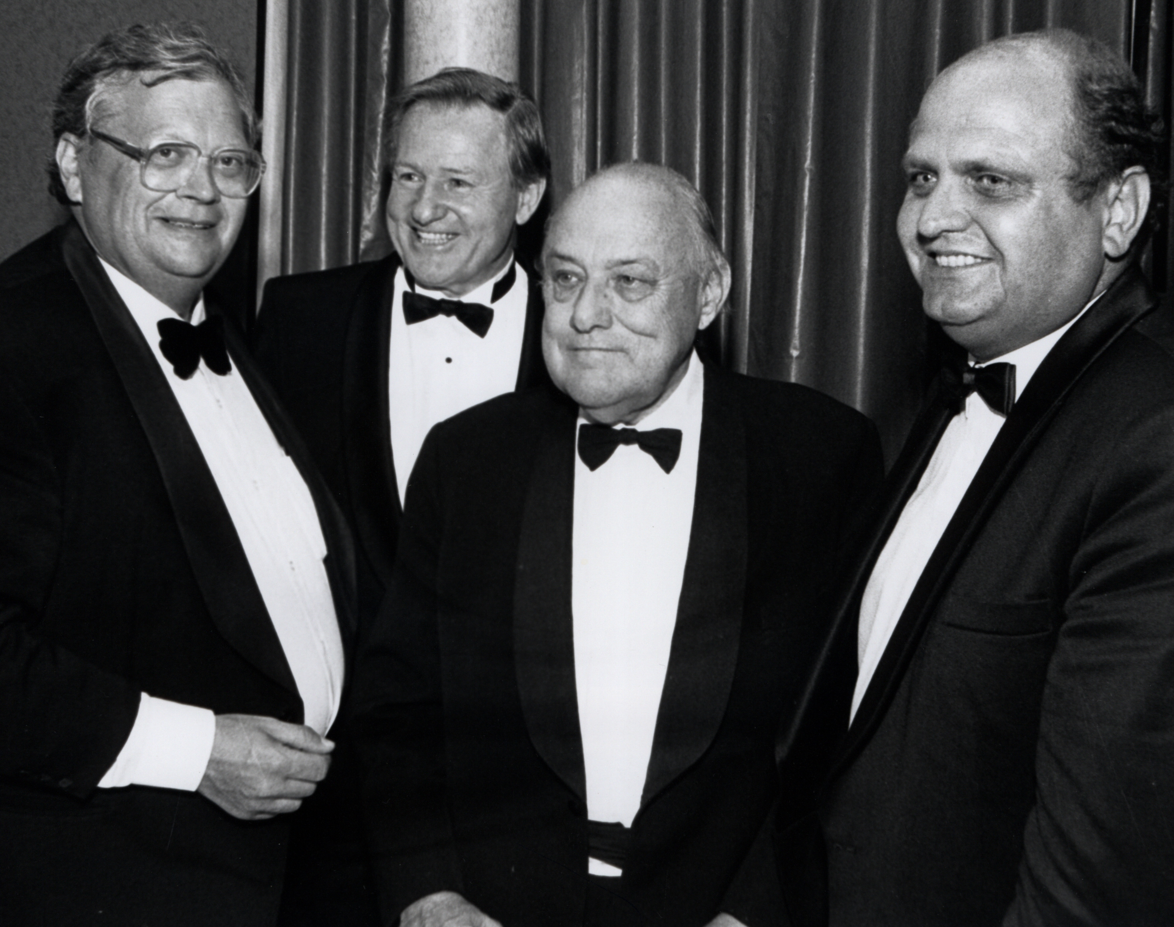 Four former New Zealand Prime Ministers - David Lange, Jim Bolger, Sir Robert Muldoon and Mike Moore - at the 1992 valedictory dinner, Wellington Club.